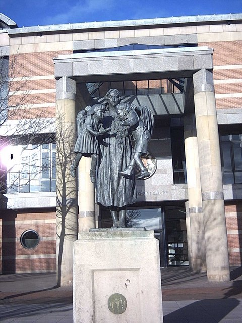 Scales of Justice, Teesside Combined Court Centre, Middlesbrough